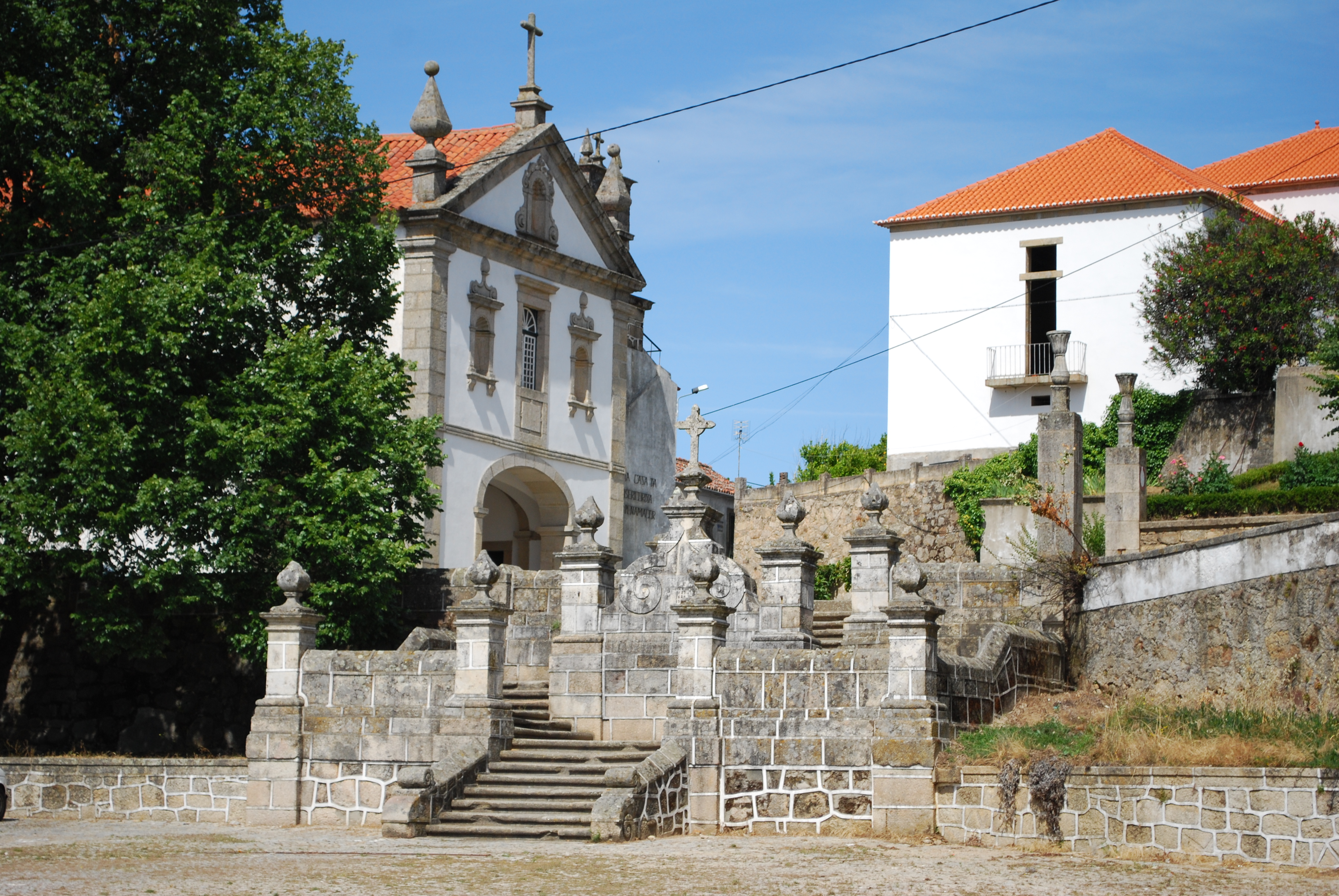 This file was uploaded for Wiki Loves Monuments in Portugal with the unique identifier 155823.